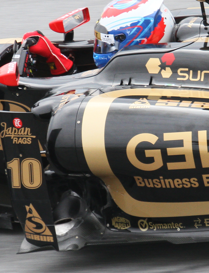 Formula One 2011 Rd.2 Malaysian GP: Vitaly Petrov (Renault) during first free practice session on Friday. This picture shows the Renault R31's forward exhaust.